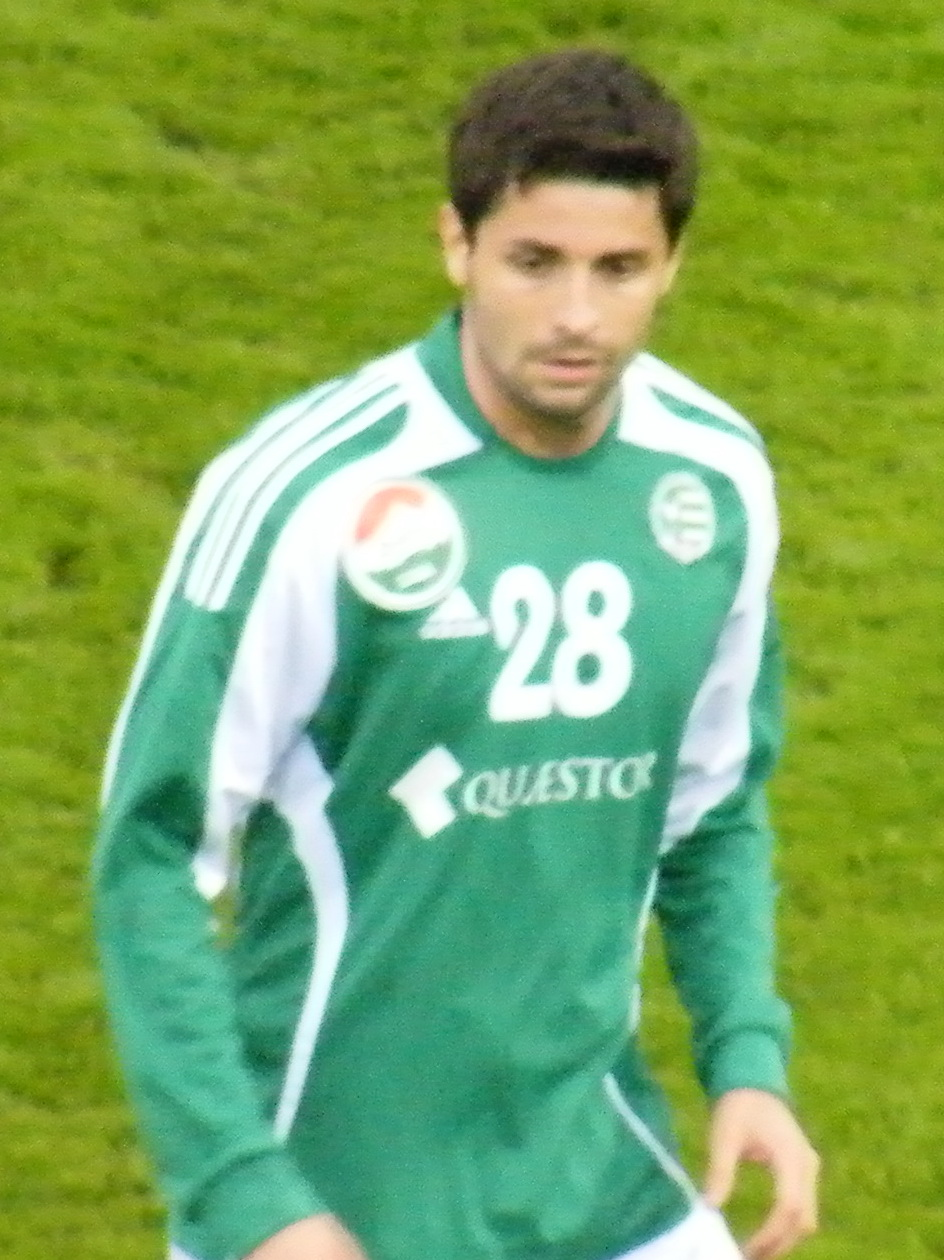 Vladimir Đorđević Serbian association football player.